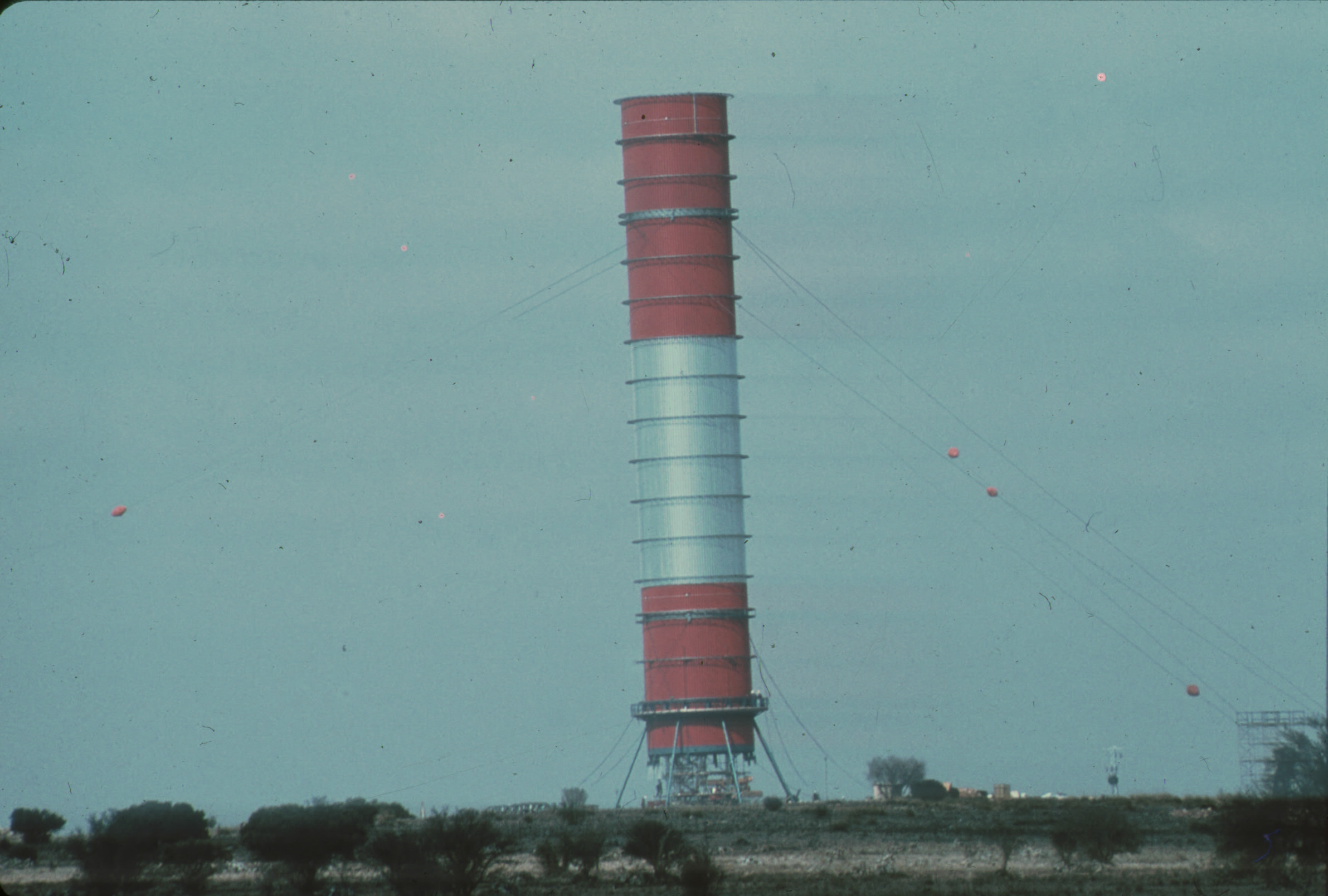 Solar Chimney Prototype at Manzanares, Spain. Chimney under construction: lifting the tower